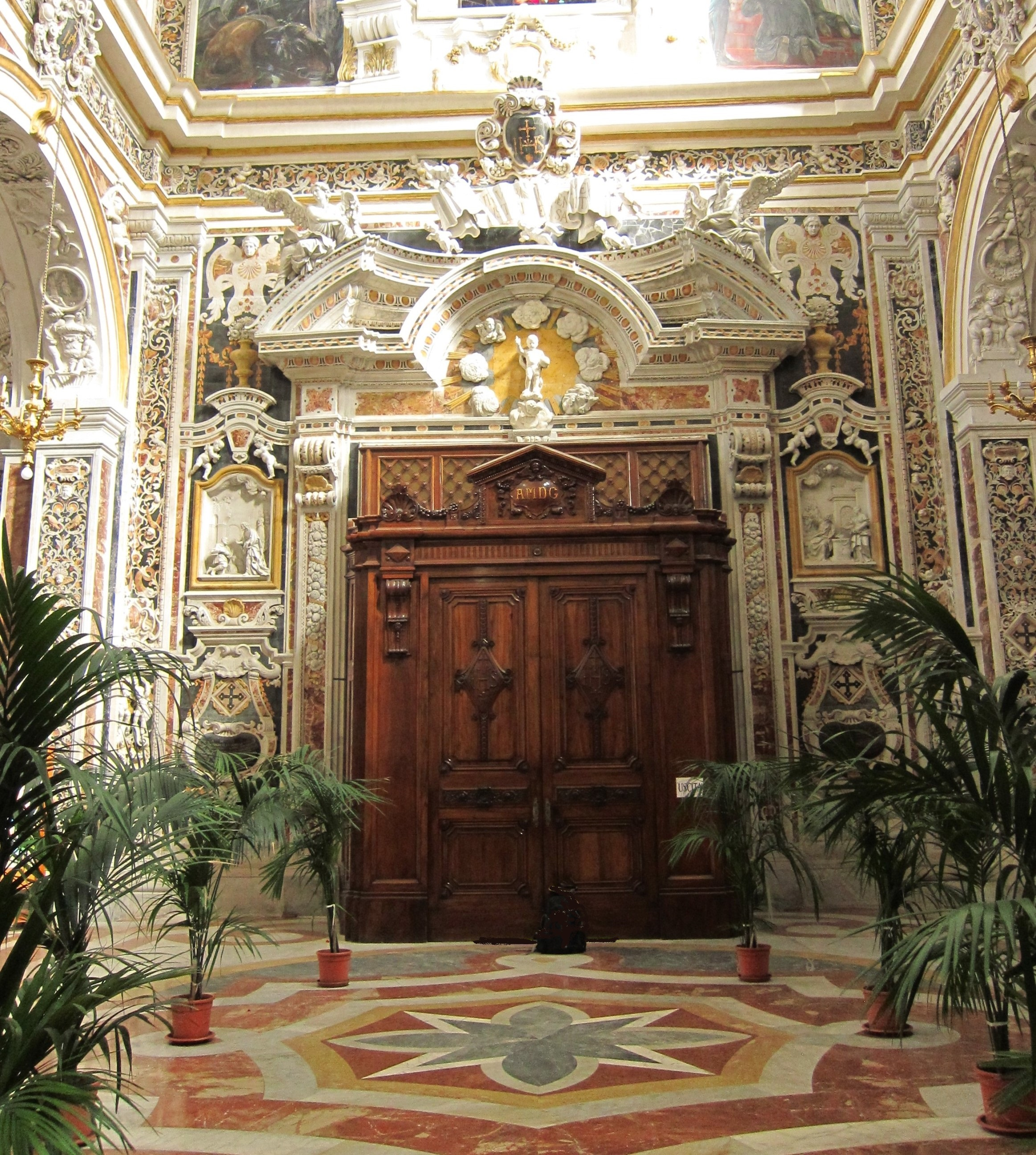 Main entrance, walls with marble carvings